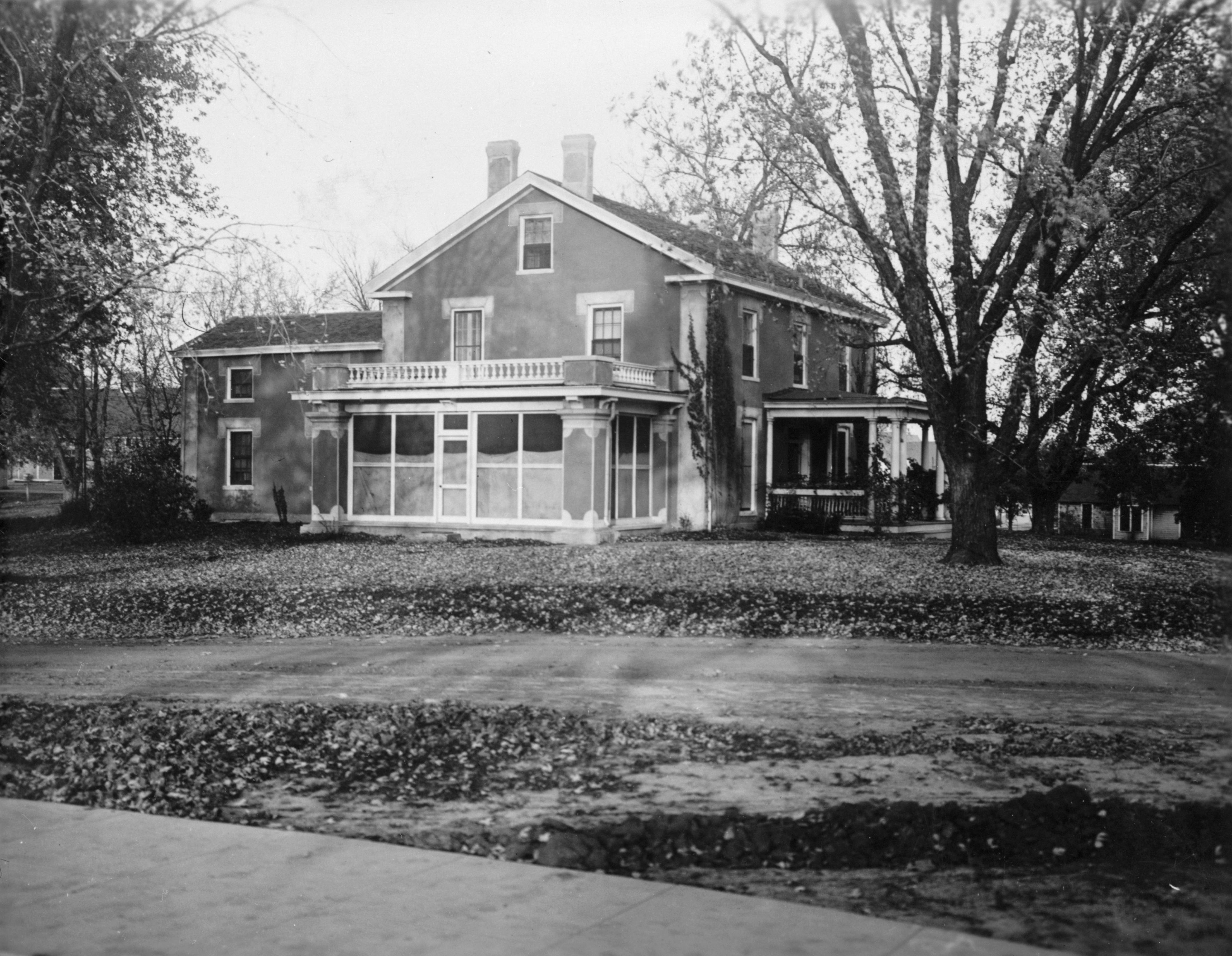 Front and western side of The Farm House (the Knapp-Wilson House) on the campus of Iowa State University in Ames, Iowa, United States. Built in 1861, the house is a National Historic Landmark.